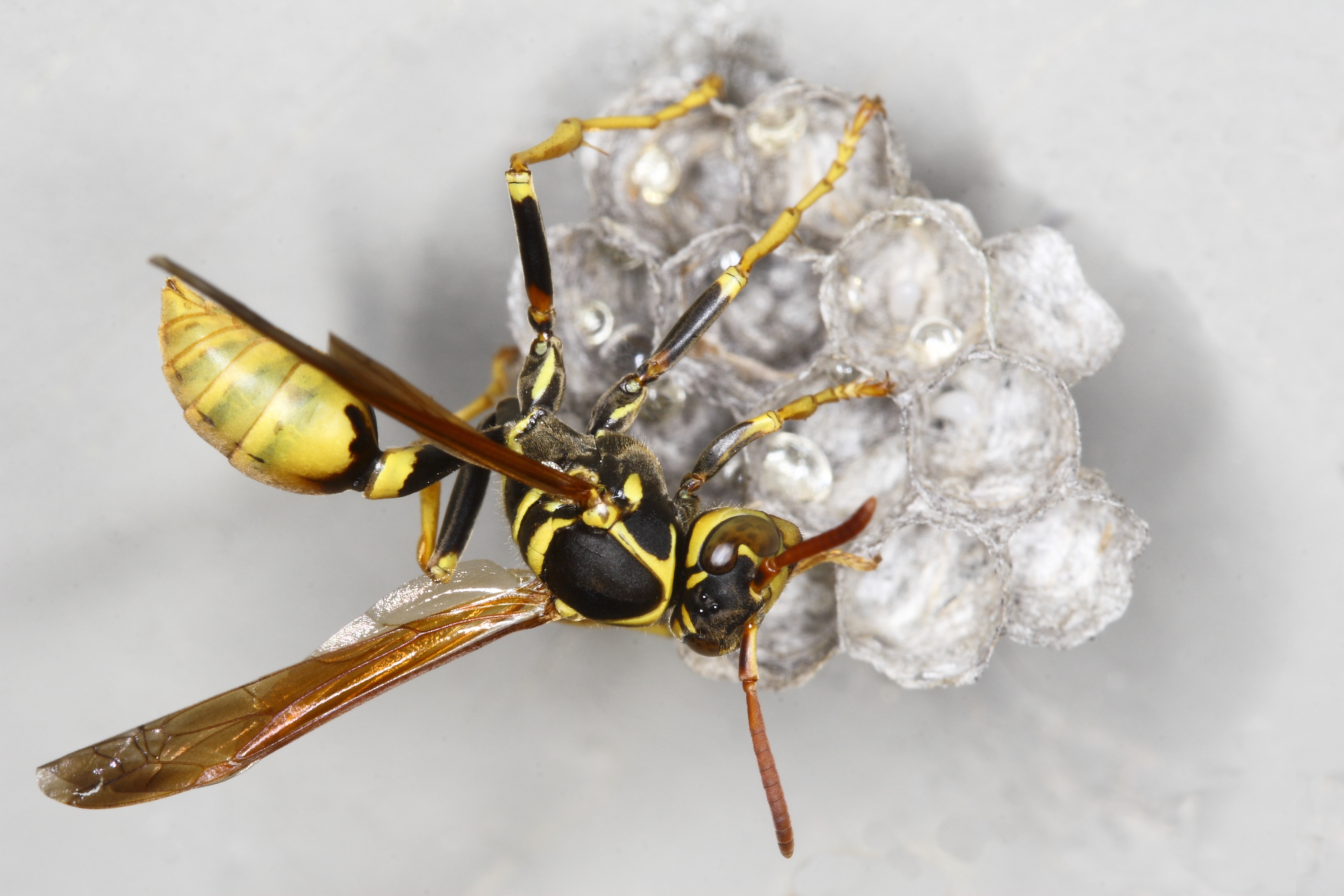 Picture of a Western Paper Wasp (Mischocyttarus flavitarsis) building a nest